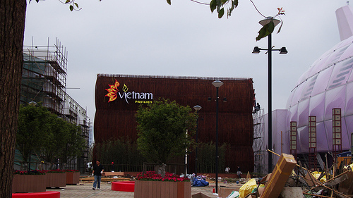 the Vietnam pavilion of Shanghai expo2010.